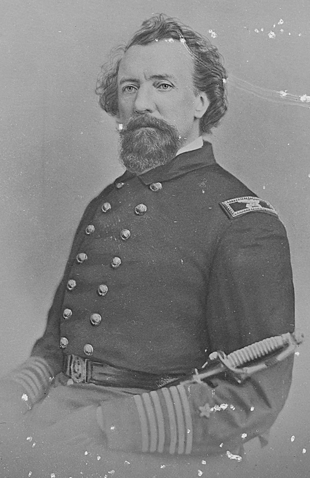 Scope and content: Man wearing uniform of Capitan of Union Navy (after 1863)